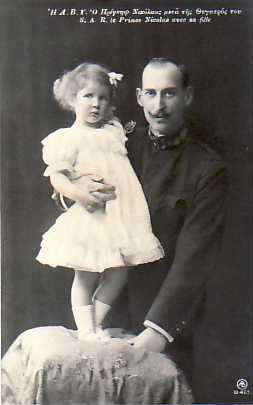 Prince Nicholas of Greece and Denmark with his daughter Princess Olga (*1903)